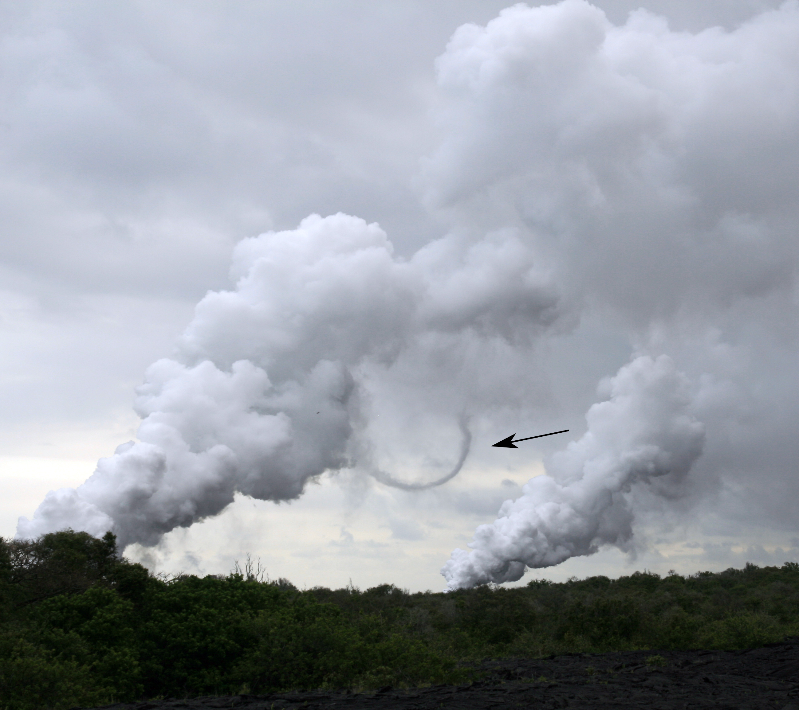 Steam devil. The steam comes from lava entering the ocean at the Big Island of Hawaii.